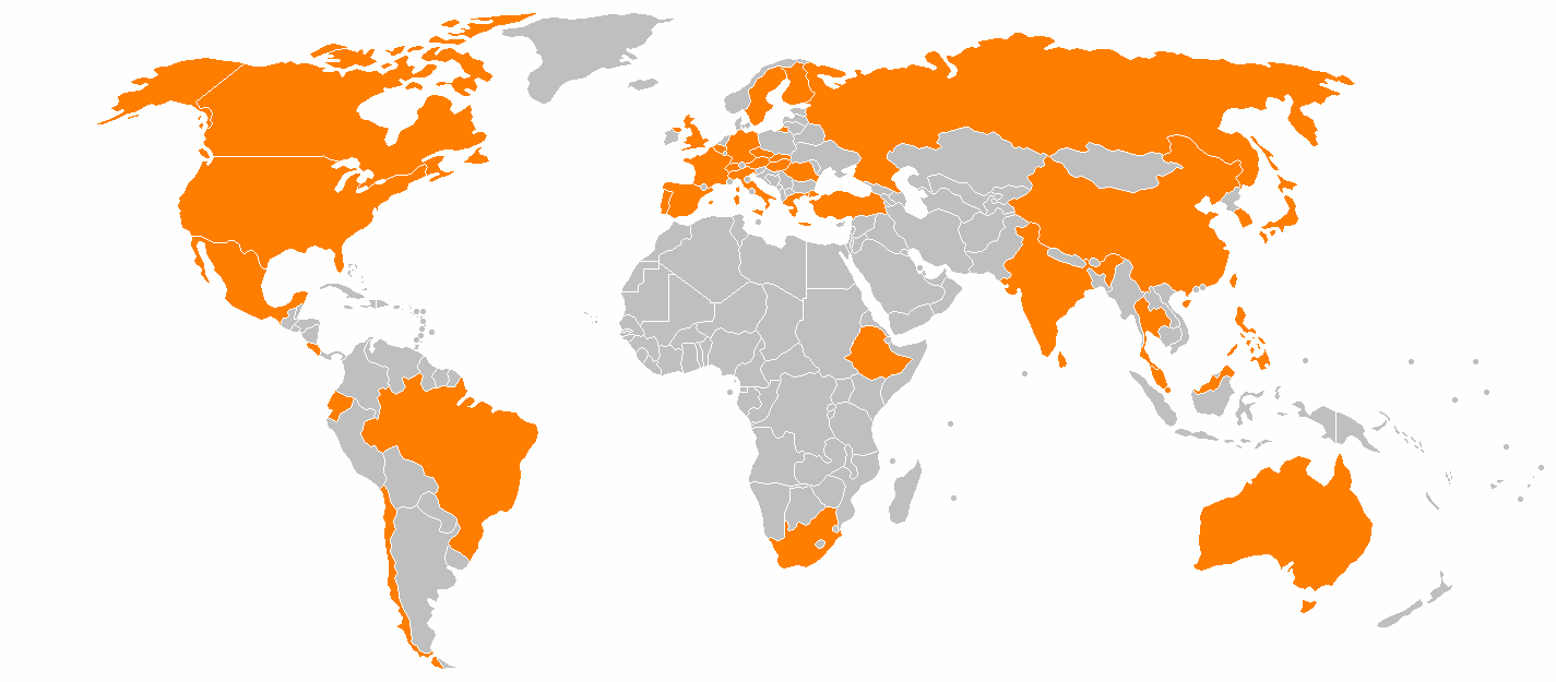 Continental AG global locations.png